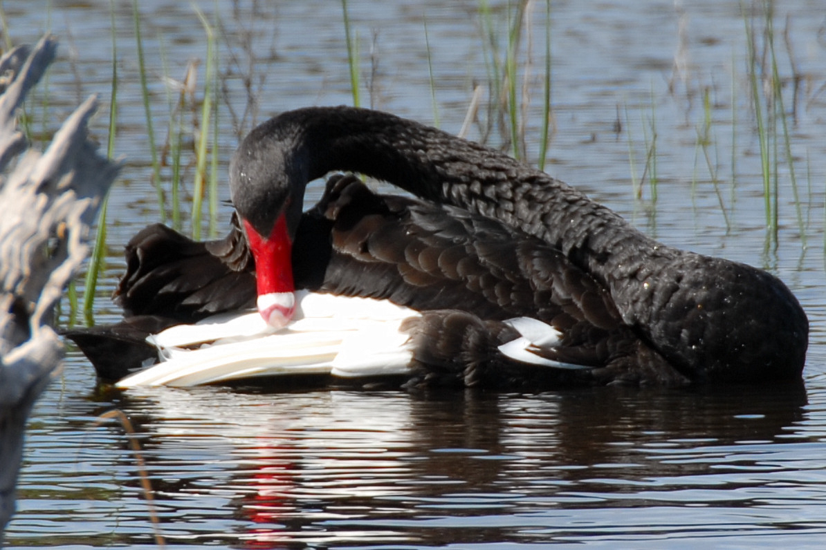 Yet another image of Cygnus atratus, a species considered to be impossible. The feathers of the species are well known to be almost black, the specimen here is preening and the white flight feathers are momentarily revealed.